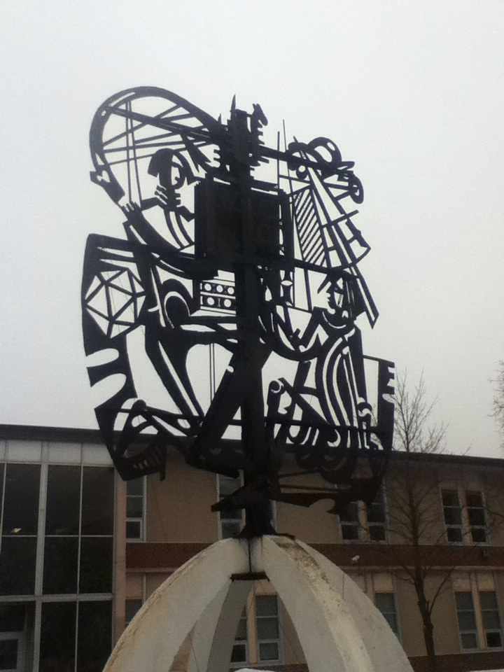 The mural of the front of school.